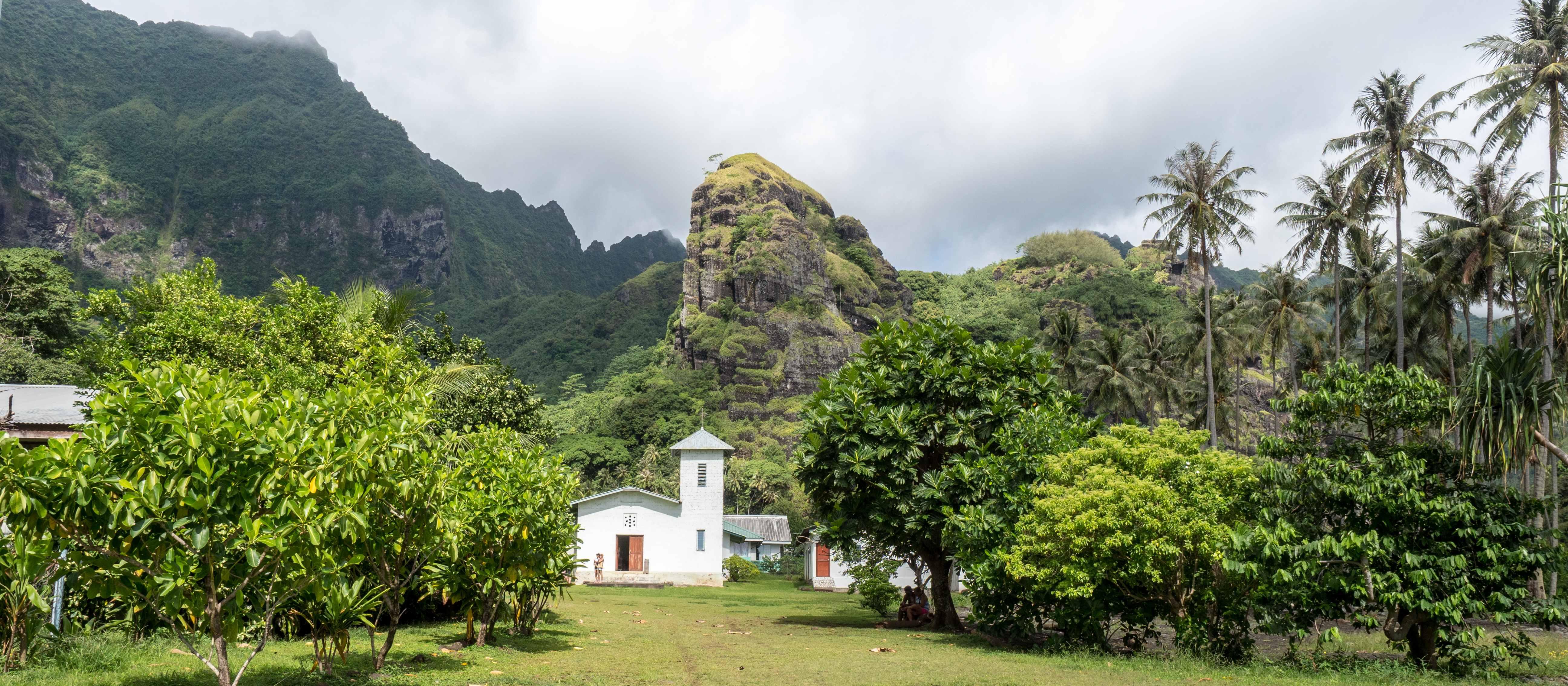 Church Hanavave, Fatu Hiva, Marquesas, Tahiti Pacific